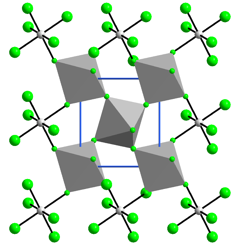 Crystal structure of vanadium tetrafluoride